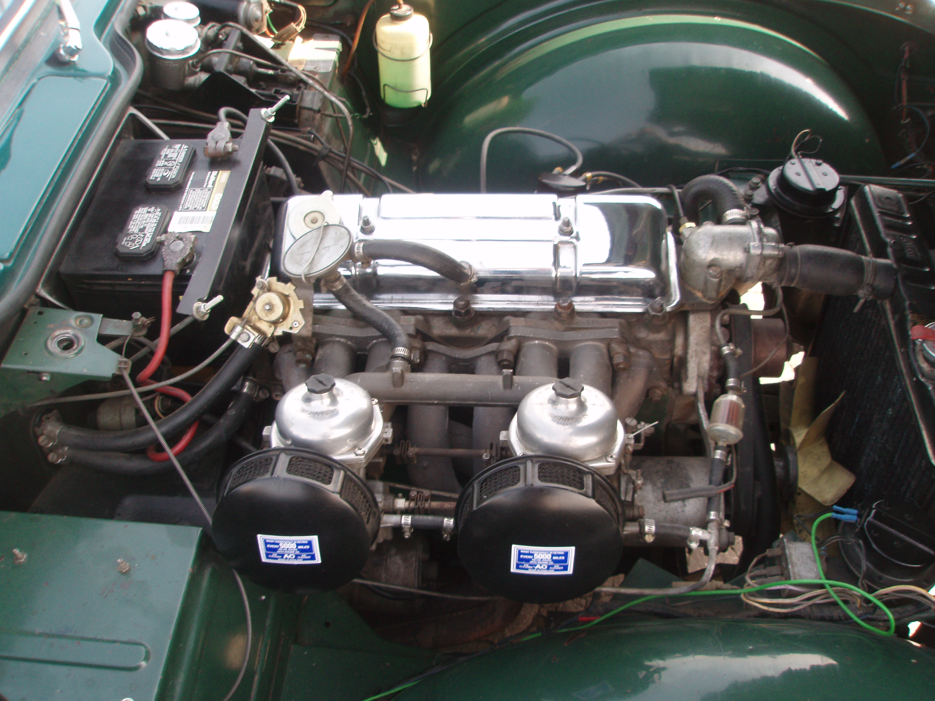 Engine of a Triumph TR4, late US version with twin Stromberg carburettor.